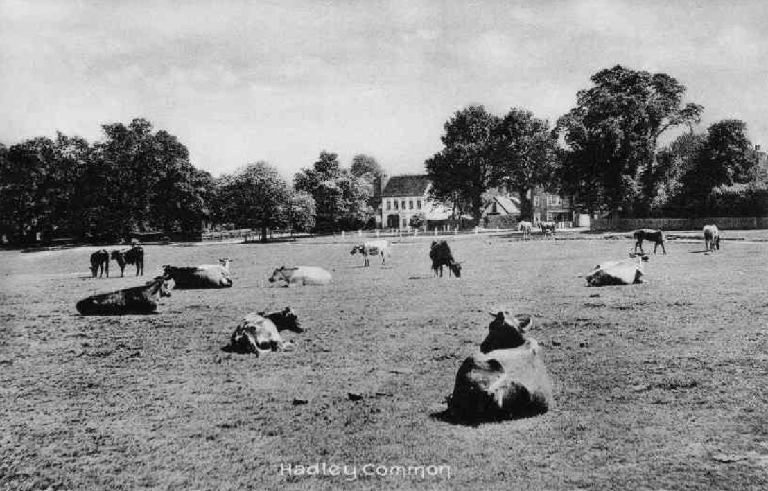 Postcard used 1911. Monken Hadley Common and Hurst Cottage.